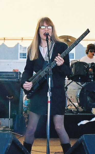 a free show featuring the tom tom club (jerry harrison came out for the encore and played drums and they did a couple of Talking Heads tunes), robert hazard ("the escalator of life", check it out, yo...word...), david johansen aka buster poindexter, and U2 @ union college upstate NY 1986